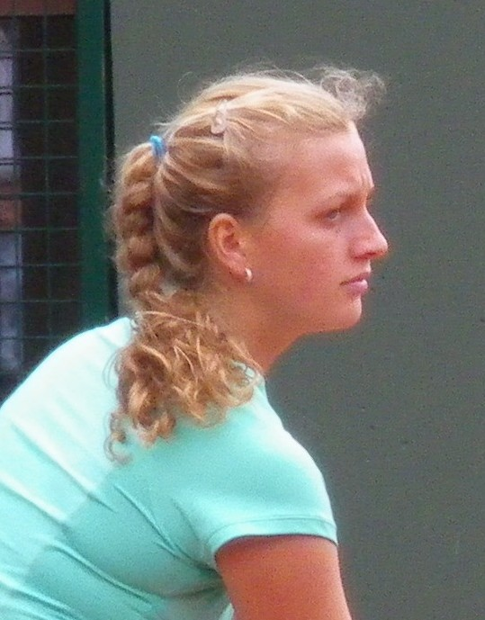 Petra Kvitová during a ladies doubles match at the French Open tennis championships (Roland Garros) 2010.